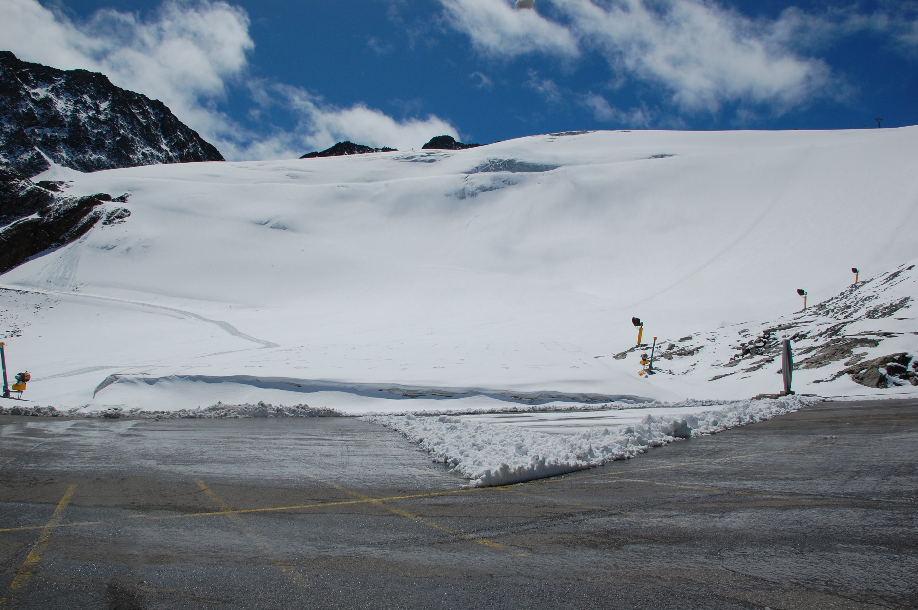 The Rettenbach glacier in the summer of 2009 just after a heavy snow fall